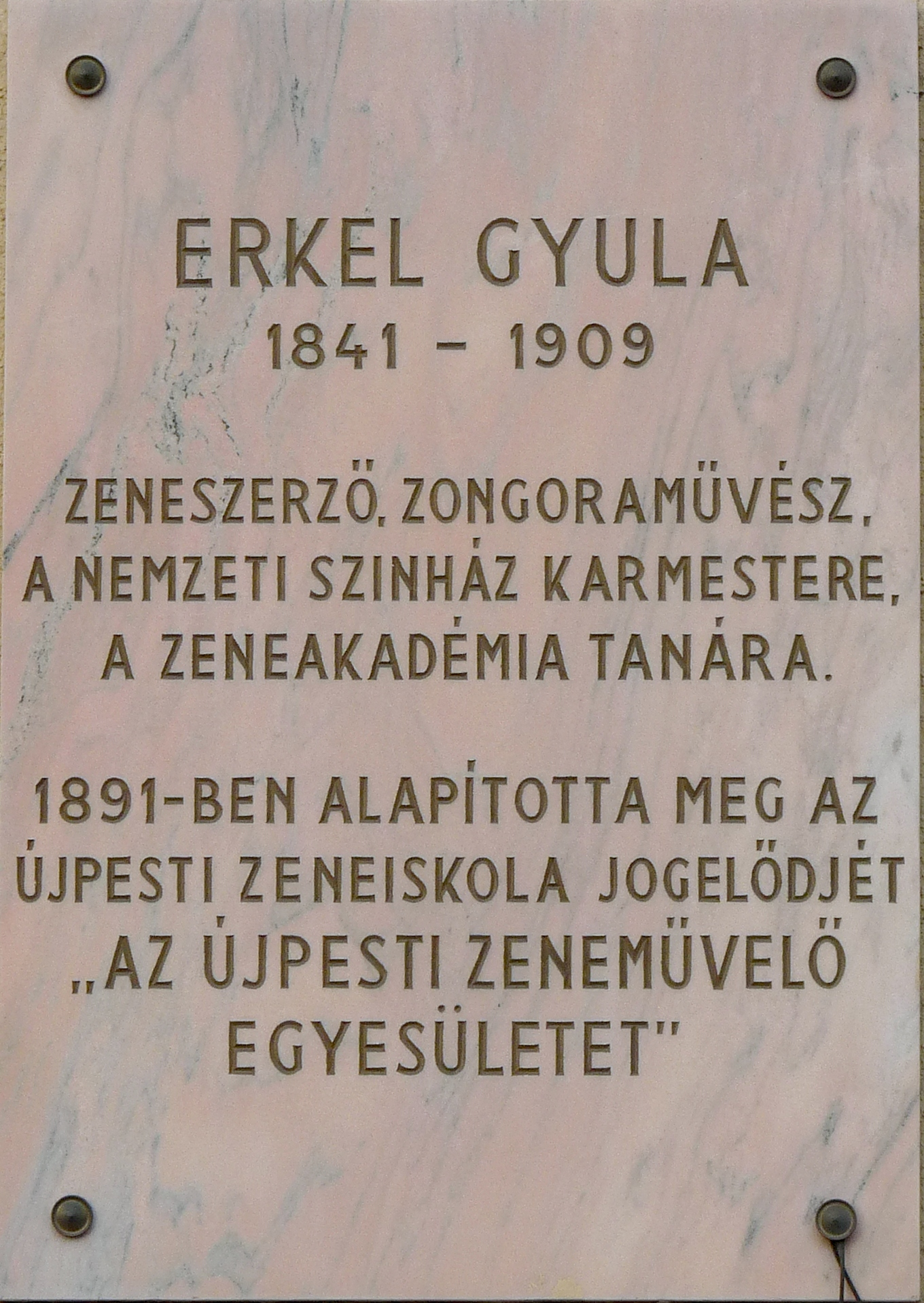 Gyula Erkel commemorative plaque in Budapest District IV, Szent István Square No 21.